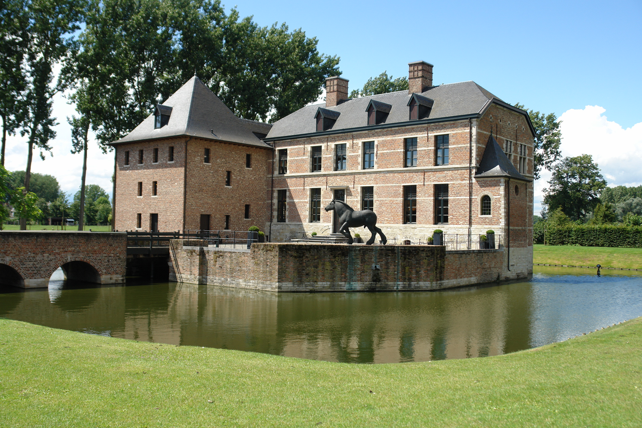 Steenhuffel castle - Palm castle (Belgium)